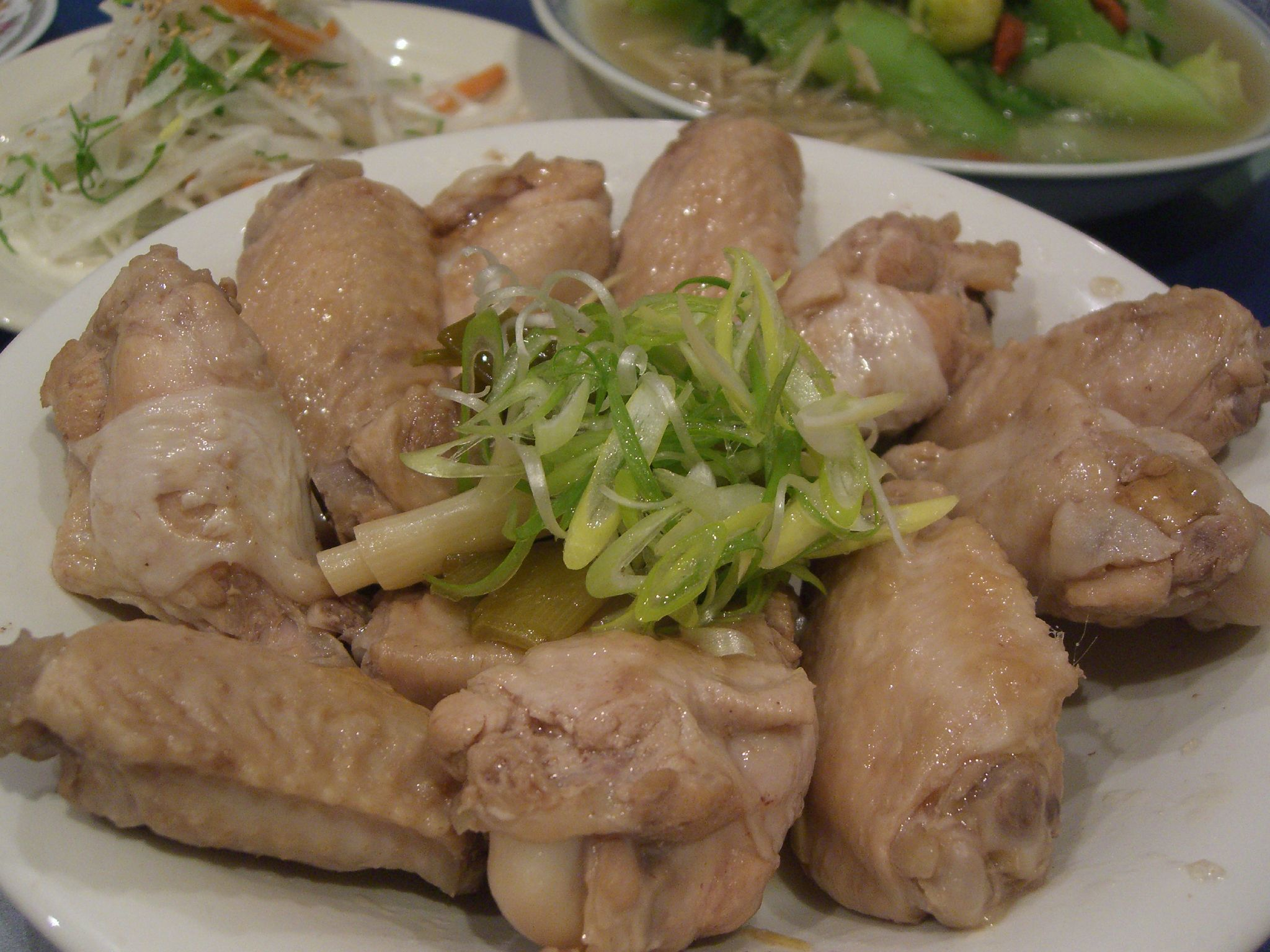 One of the variation of Drunken chicken made from the famous Shaoxing wine.